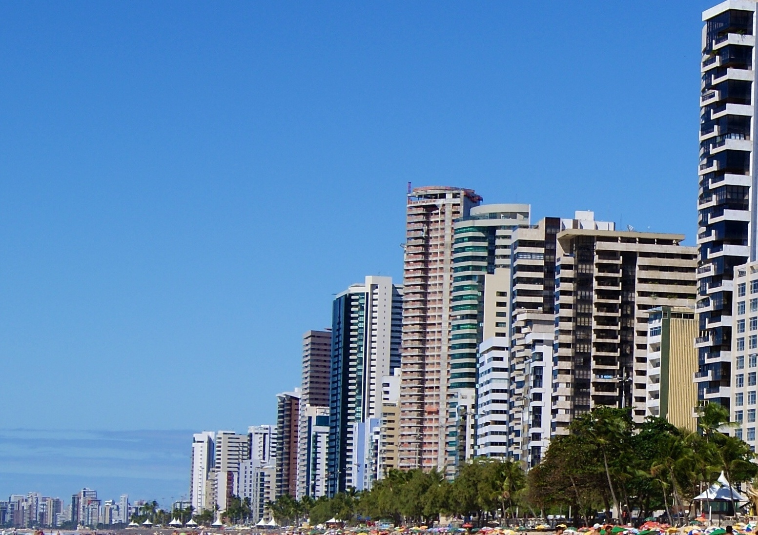 Boa Viagem Beach - Recife - Pernambuco - Brazil